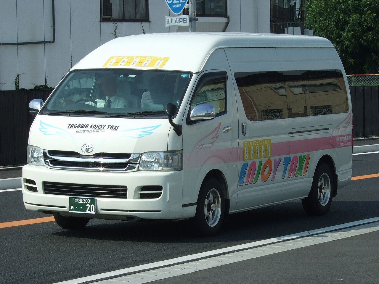 Tagawa City community bus Company:Tagawa Kounai Jidosha Car license:FOC 300 A 20 Type:Toyota HiAce Location:In Tagawa City, Fukuoka, Japan